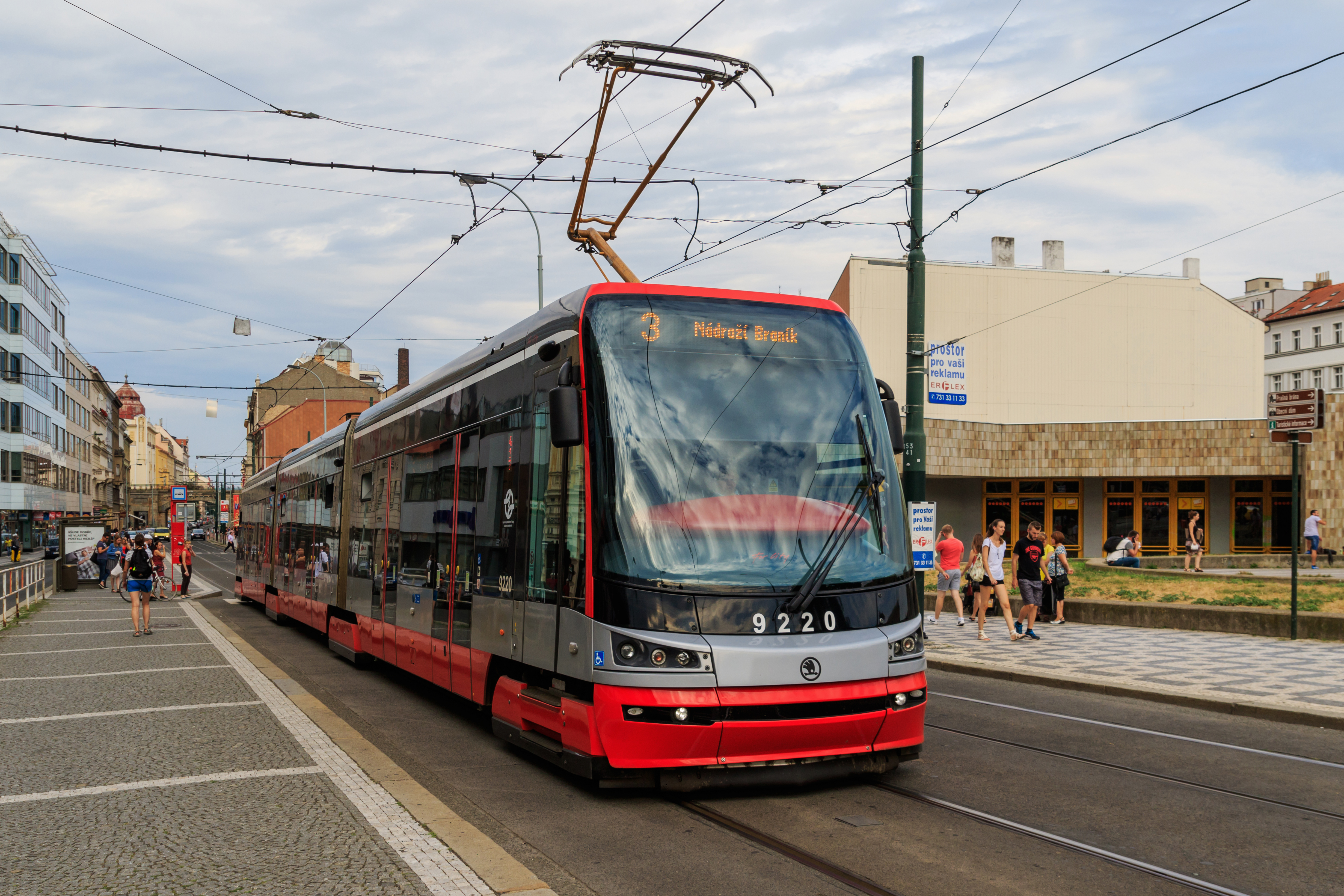 Škoda 15T tram near Florenc metro station in Prague (Czech Republic)